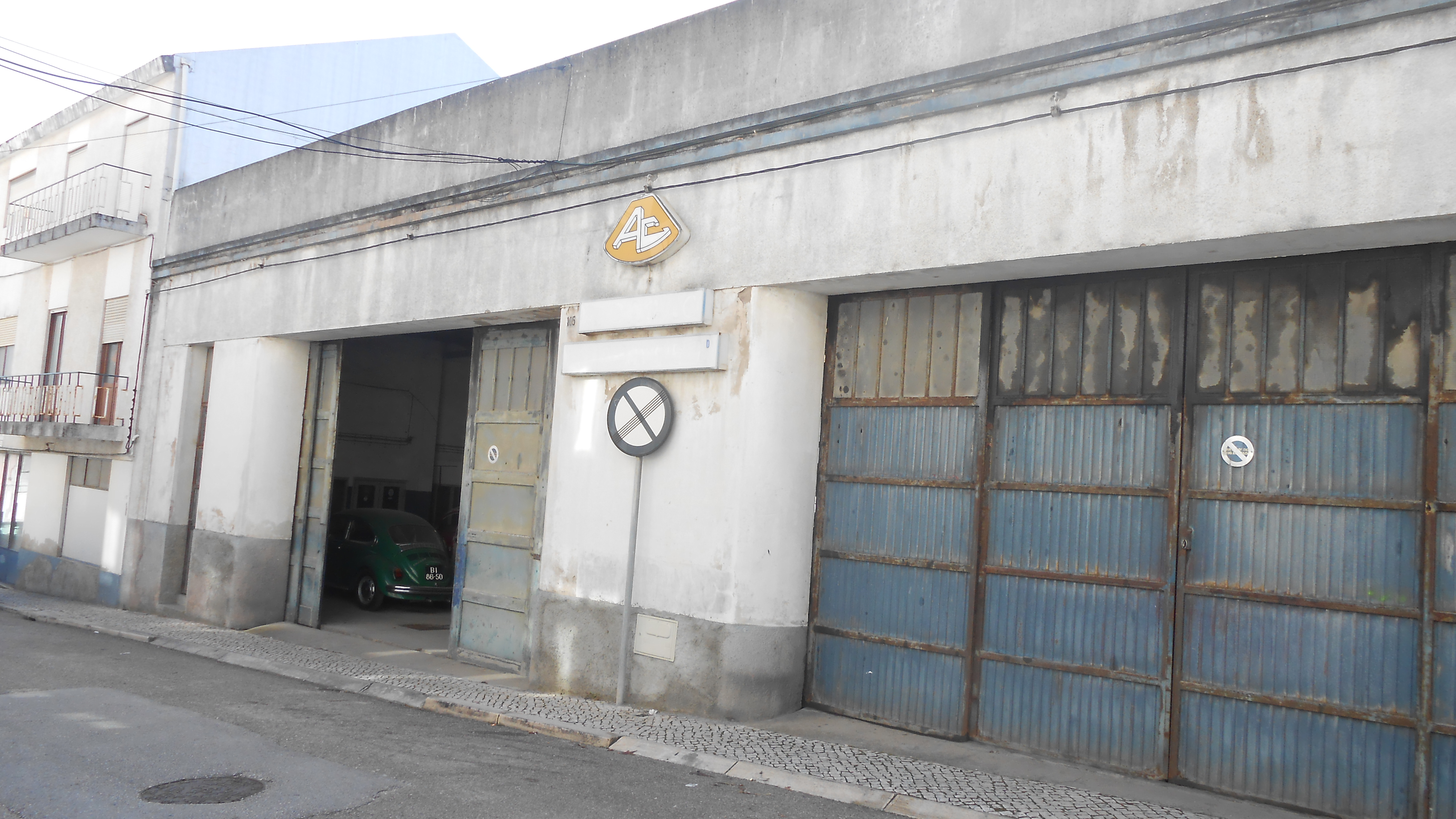 Entrance to the A. Cação Automóveis workshop, april 2013